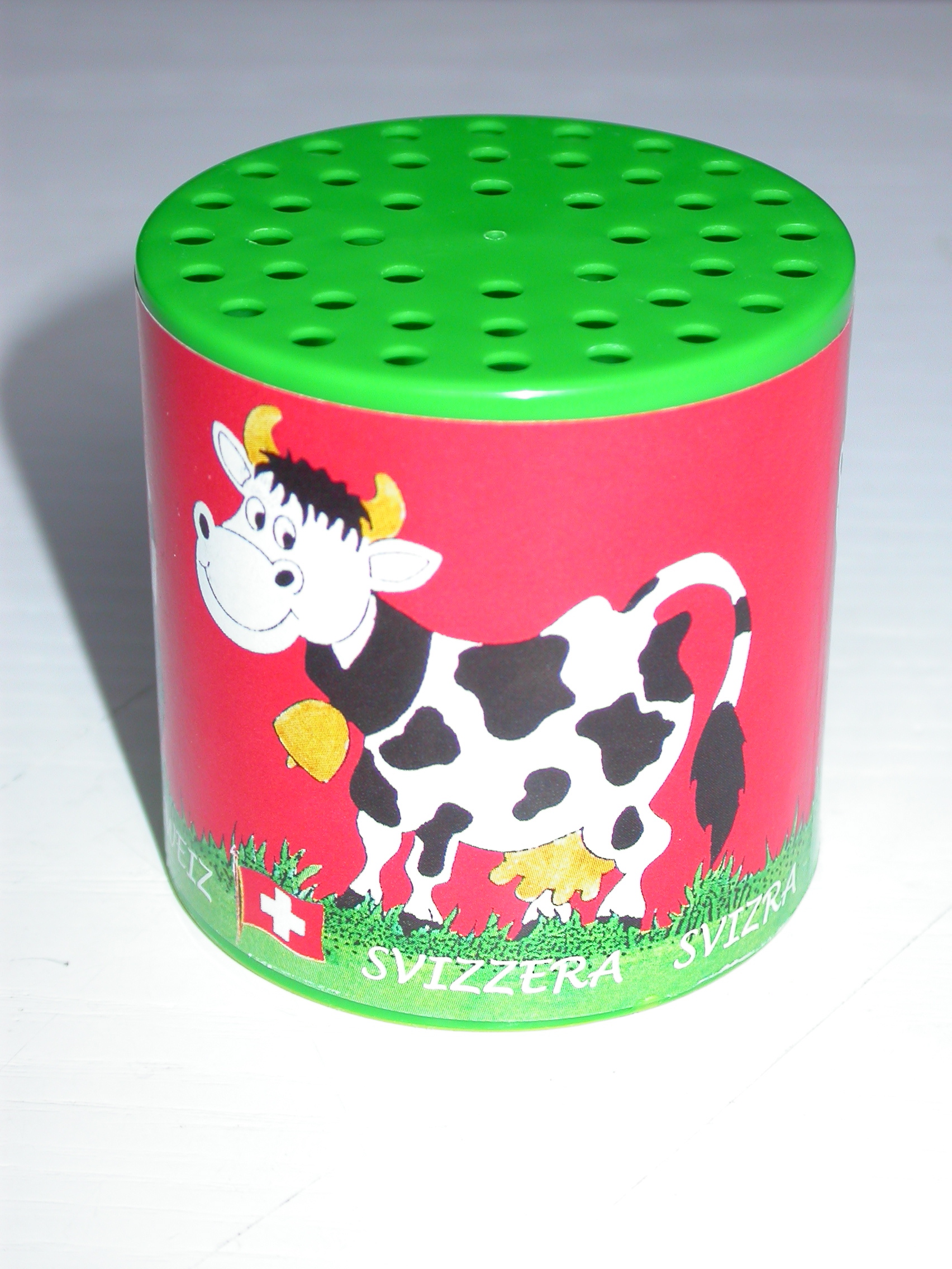 photo of a "meuh box"